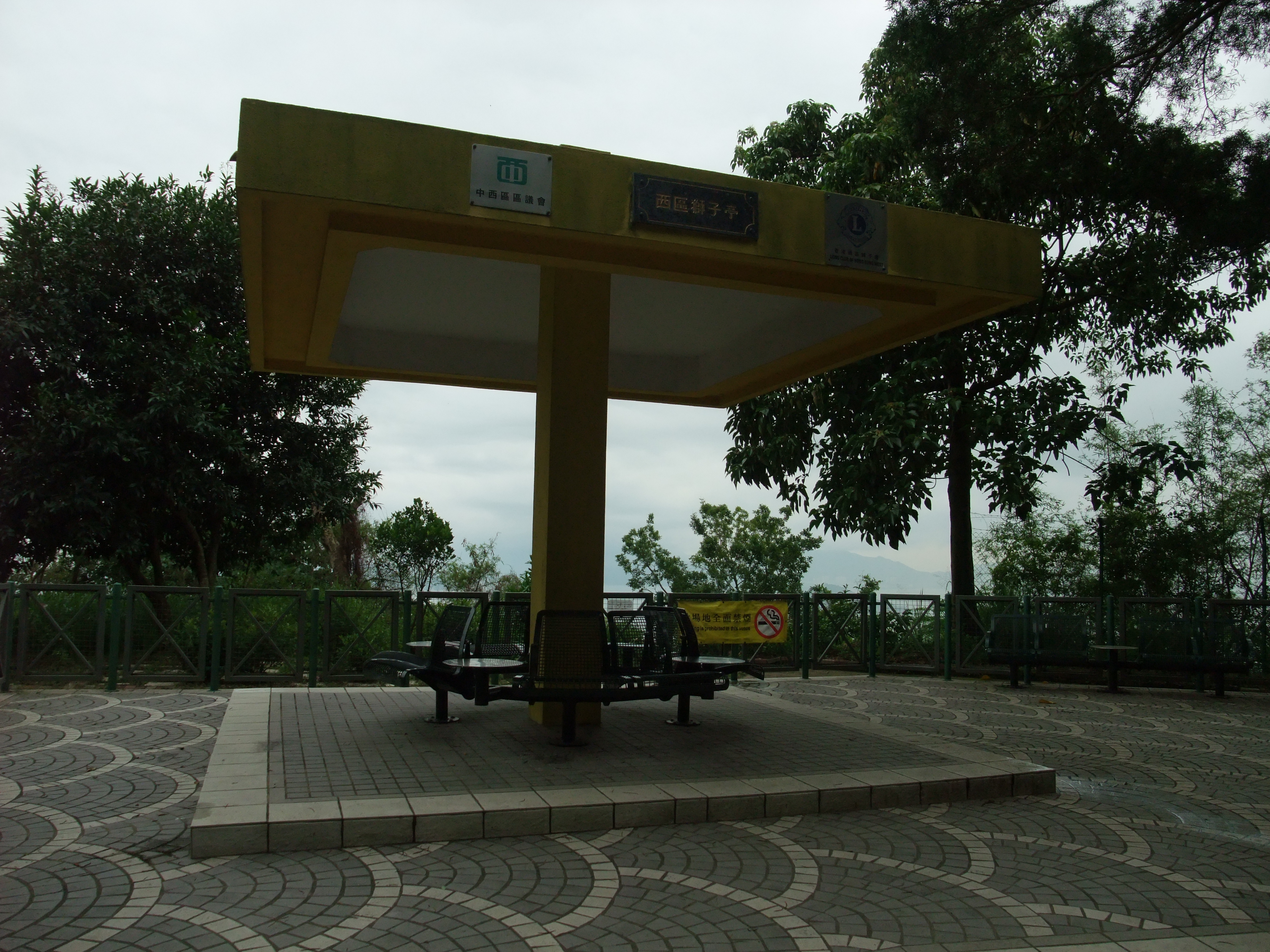 Lions Pavilion at Mount Davis, built by Lions Club of Hong Kong West and Central and Western District Council